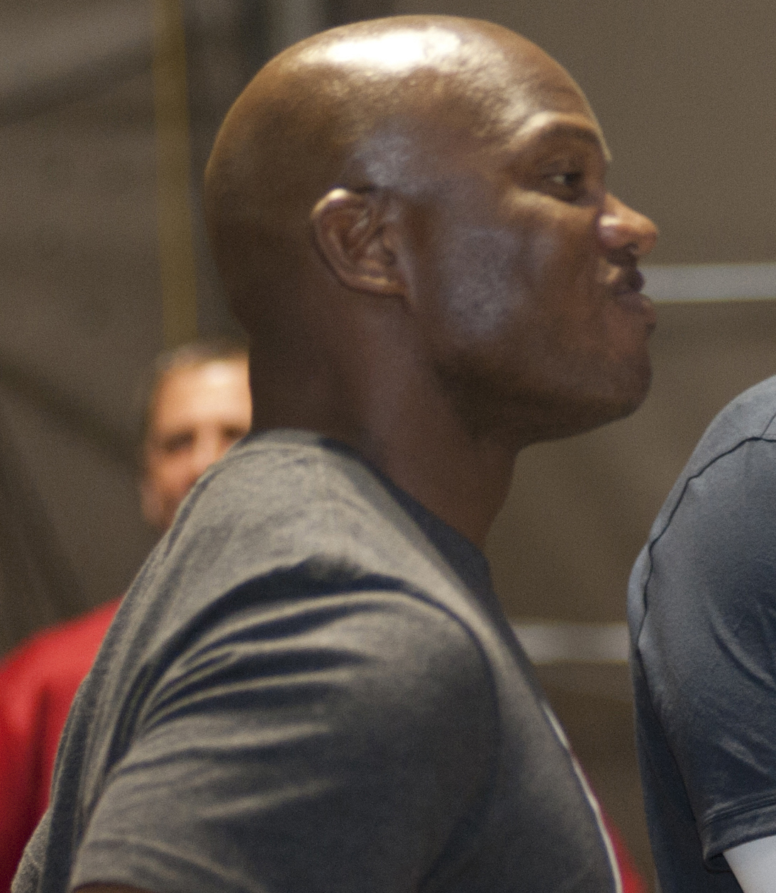 Eric Metcalf, left, and Donnie Edwards, former National Football League players, joke with Lt. Col. Tammy Hinskton, 376th Expeditionary Force Support Squadron commander, at Transit Center at Manas, Kyrgyzstan, July 6, 2013. The sports stars took photos, handed out USO t-shirts and socialized during their visit to the Transit Center. (U.S. Air Force photo/Staff Sgt. Robert Barnett)